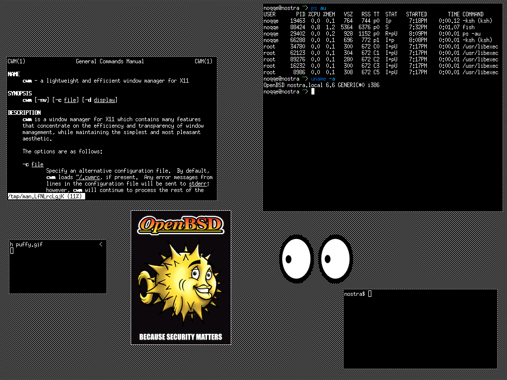 OpenBSD with its standard windowmanager cwm and xeyes